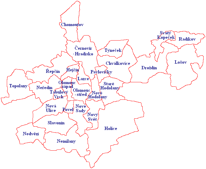 Commissions of city quarters of Olomouc